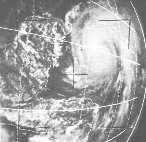 The image shows the developed hurricane moving slowly northward toward western Cuba.